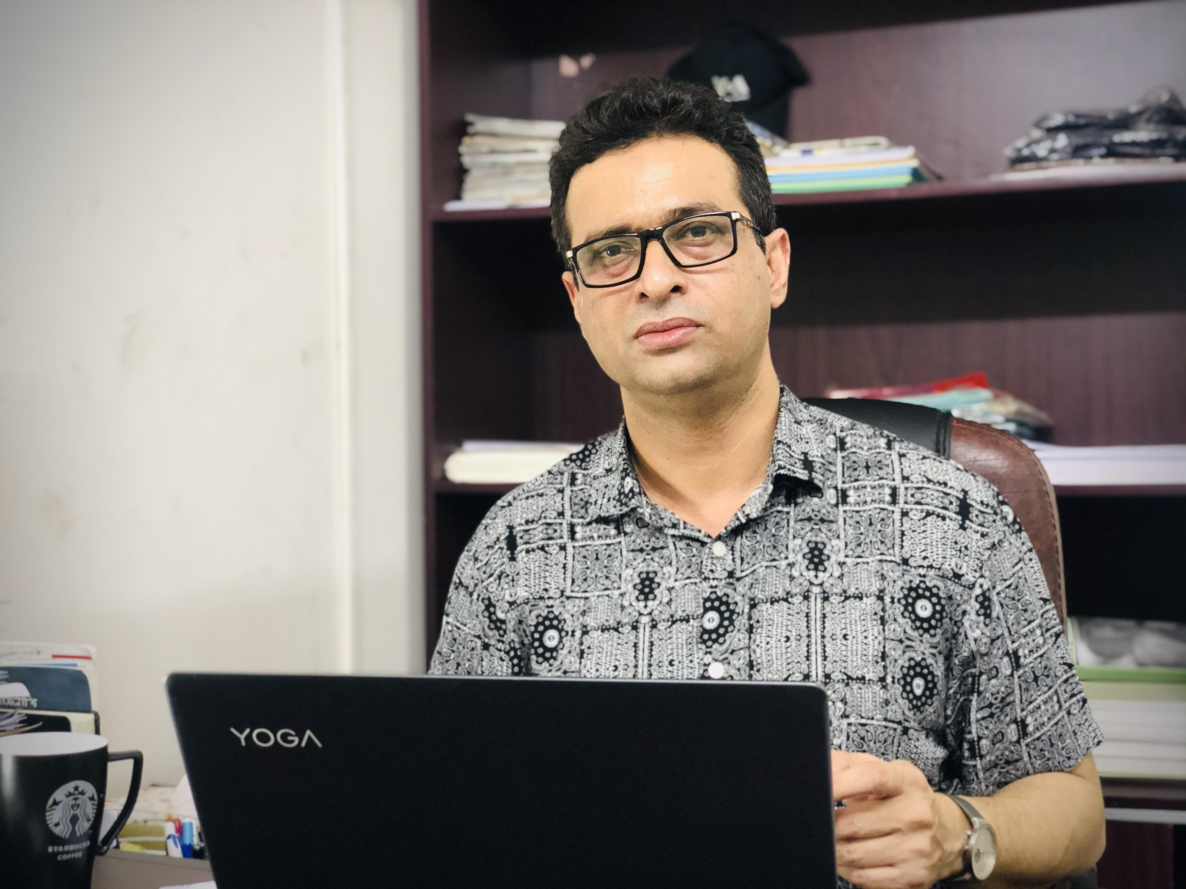 Karamot Ullah Biplob in 2020